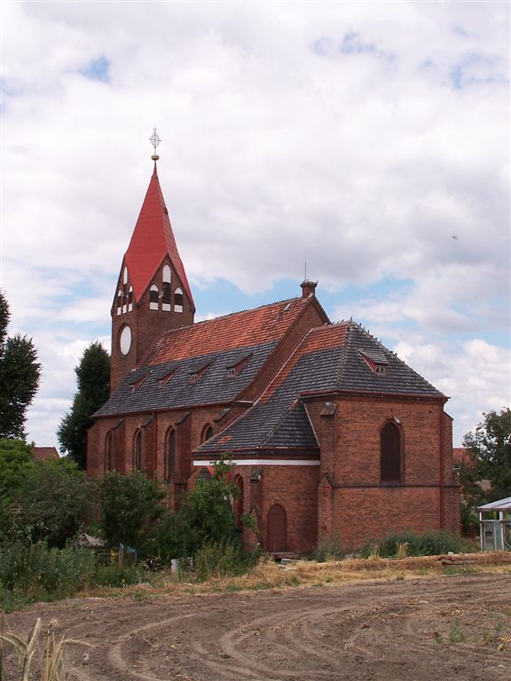 Neogothic church in Glogow (Krzepow) in Lower Silesia, Poland